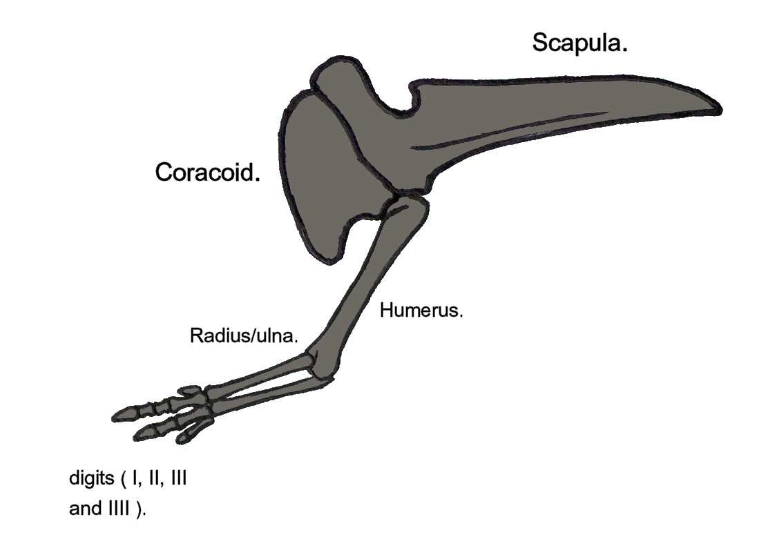 Illustration of the forelimb of the theropod dinosaur Limusaurus inextricabilis.